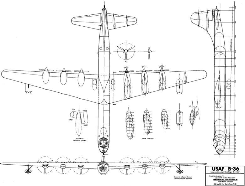 Plane scheme